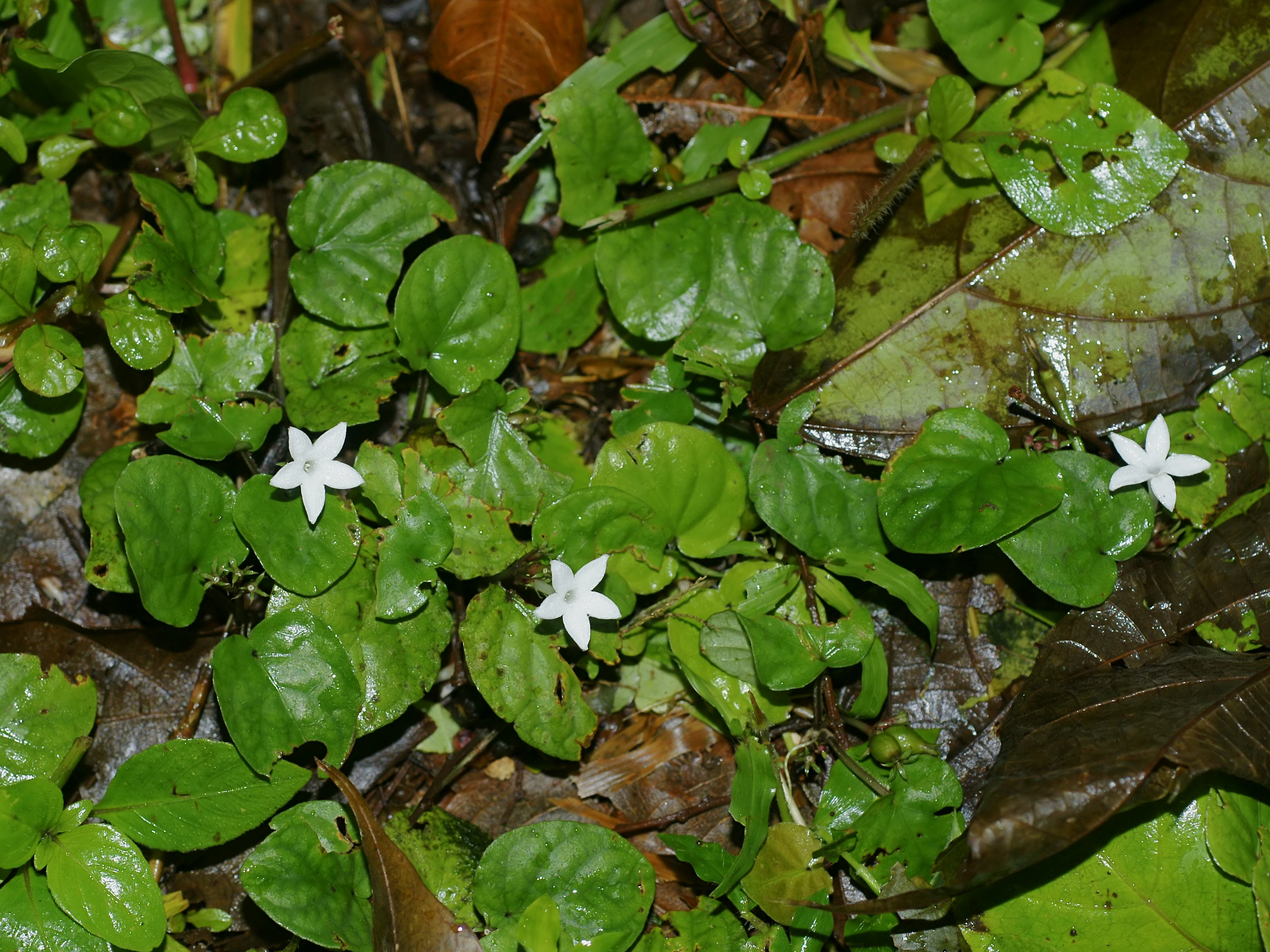 Corrida yerba de guava (no English name) near Puerto Viejo de Sarapiqui, Costa Rica